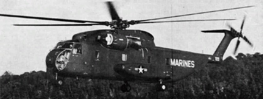 The Sikorsky YCH-53A helicopter prototype (BuNo 151613), which made its first flight on 14 October 1964.